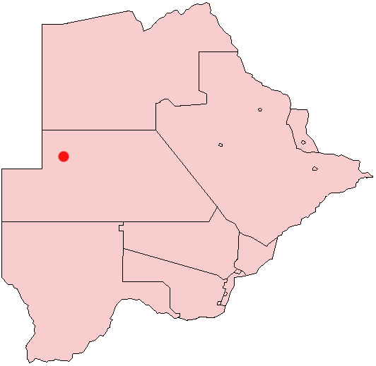 Ghanzi, Botswana Location Map; created with the GIMP. Made by User:Acntx.